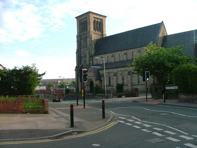 Parish church of St John the Evangelist, Neasham Road, Darlington, County Durham, seen from the south